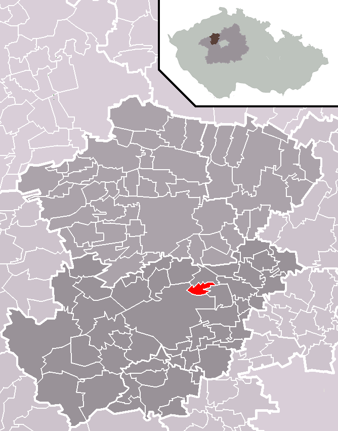 Location of Cvrčovice municipality within Kladno District and administrative area of Kladno as a Municipality with Extended Competence.